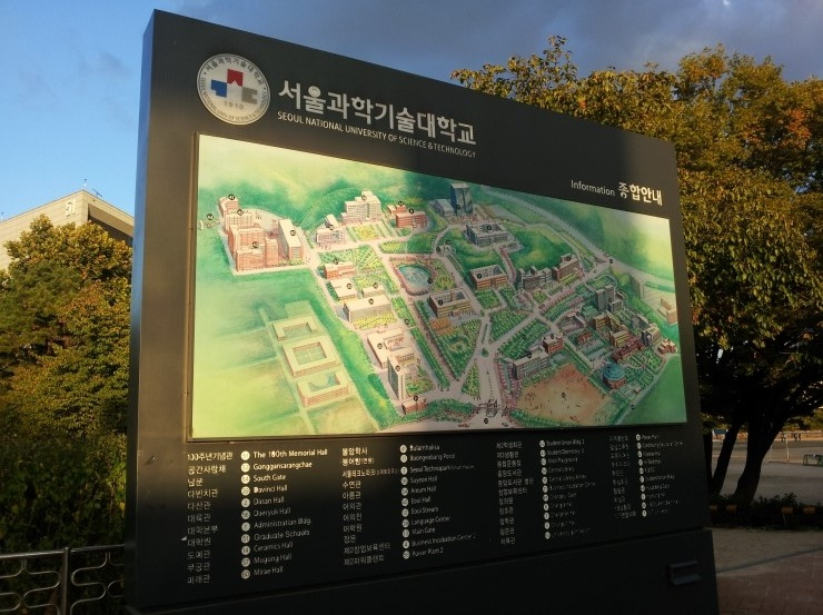 seoultech campus map